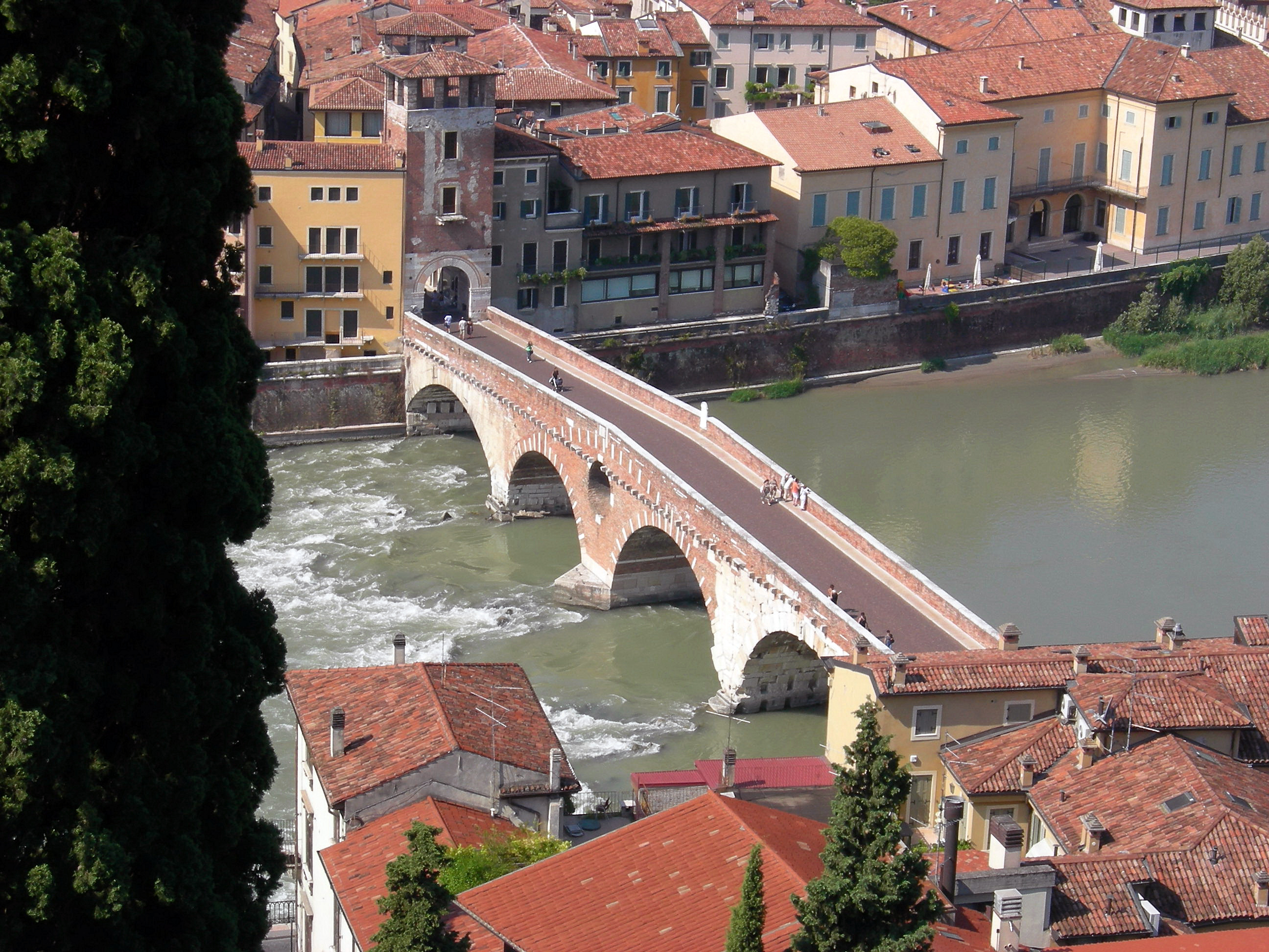 Ponte Pietra - Verona